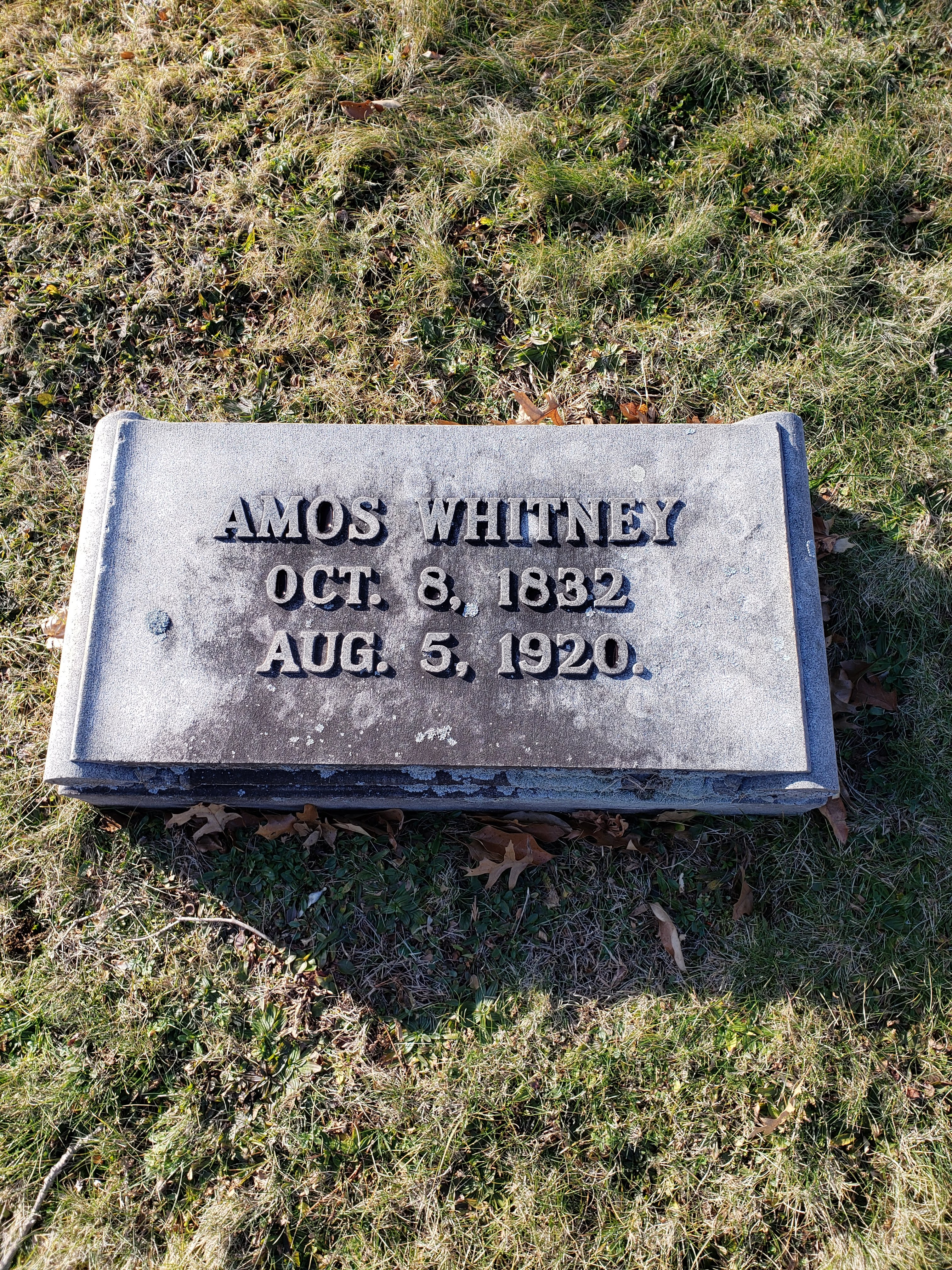 Amos Whitney gravestone in Cedar Hill Cemetery in Hartford, Connecticut. Photo taken January 2020.